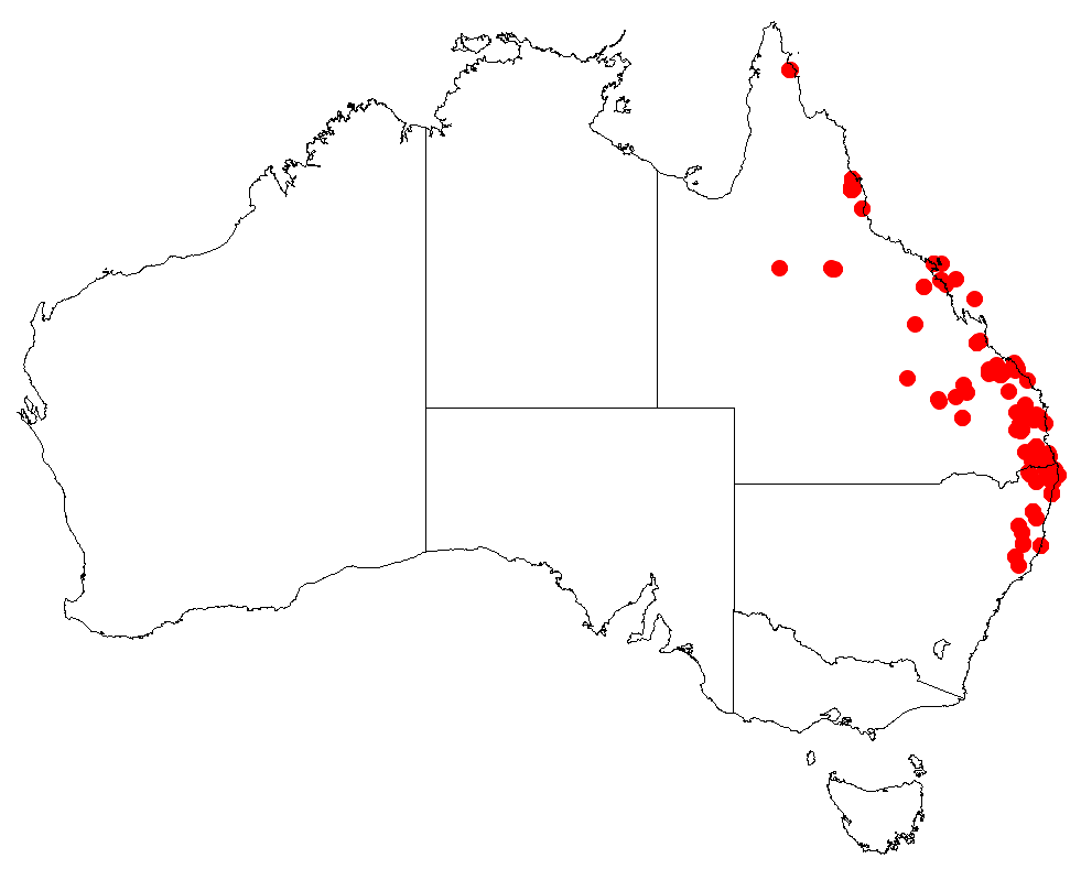 Parsonsia rotata Occurrence data for Australia from Australasian Virtual Herbarium downloaded 22 December 2018